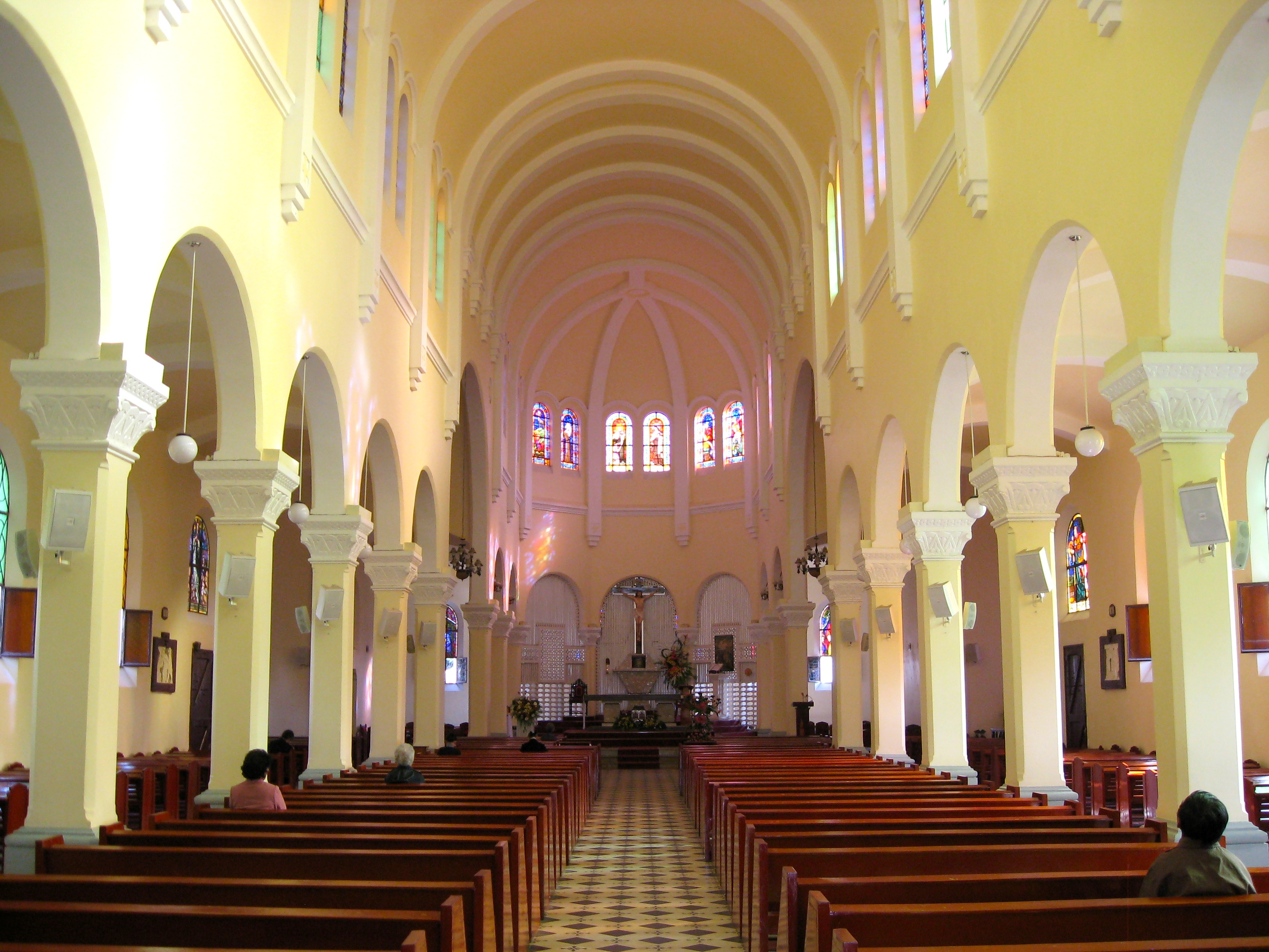 Cathedral of Da Lat